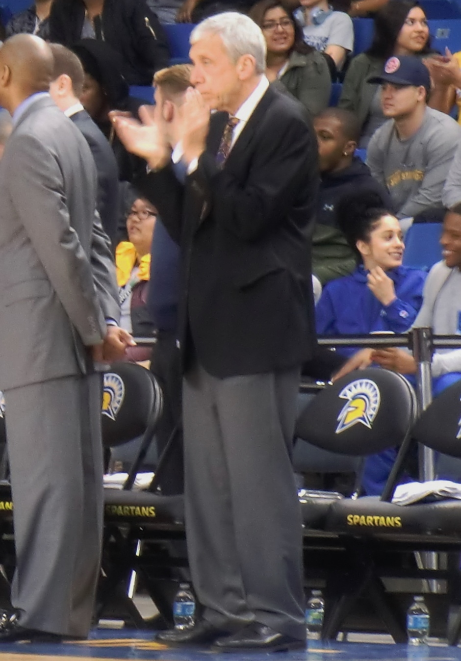 Fresno State men's basketball associate head coach Jerry Wainwright before a game against San Jose State at the Event Center in San Jose, Calif. on February 3, 2016.